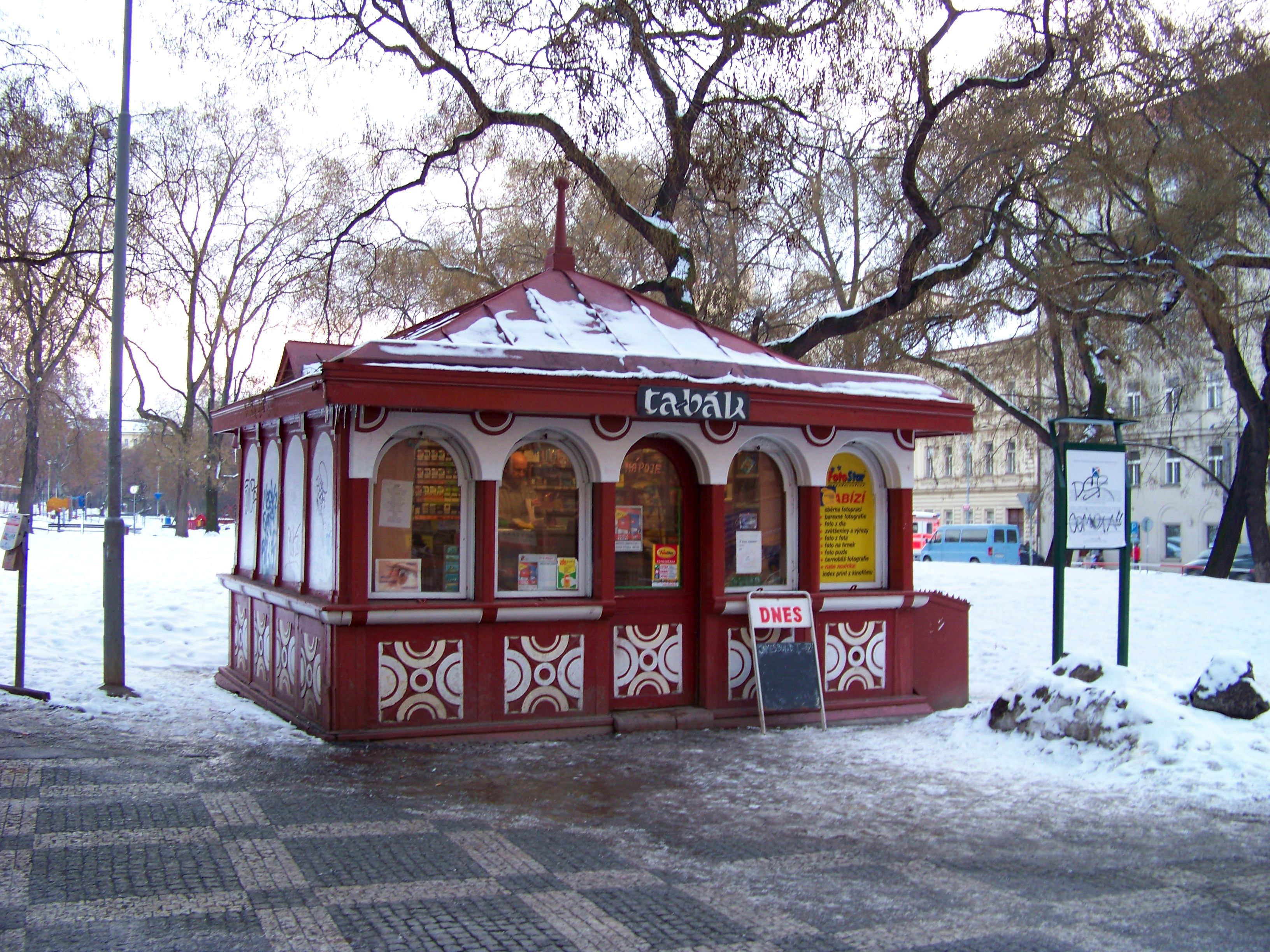 New Town, Prague, the Czech Republic. A tobacco shop near Bolzanova Street. - Google Maps - Google Earth